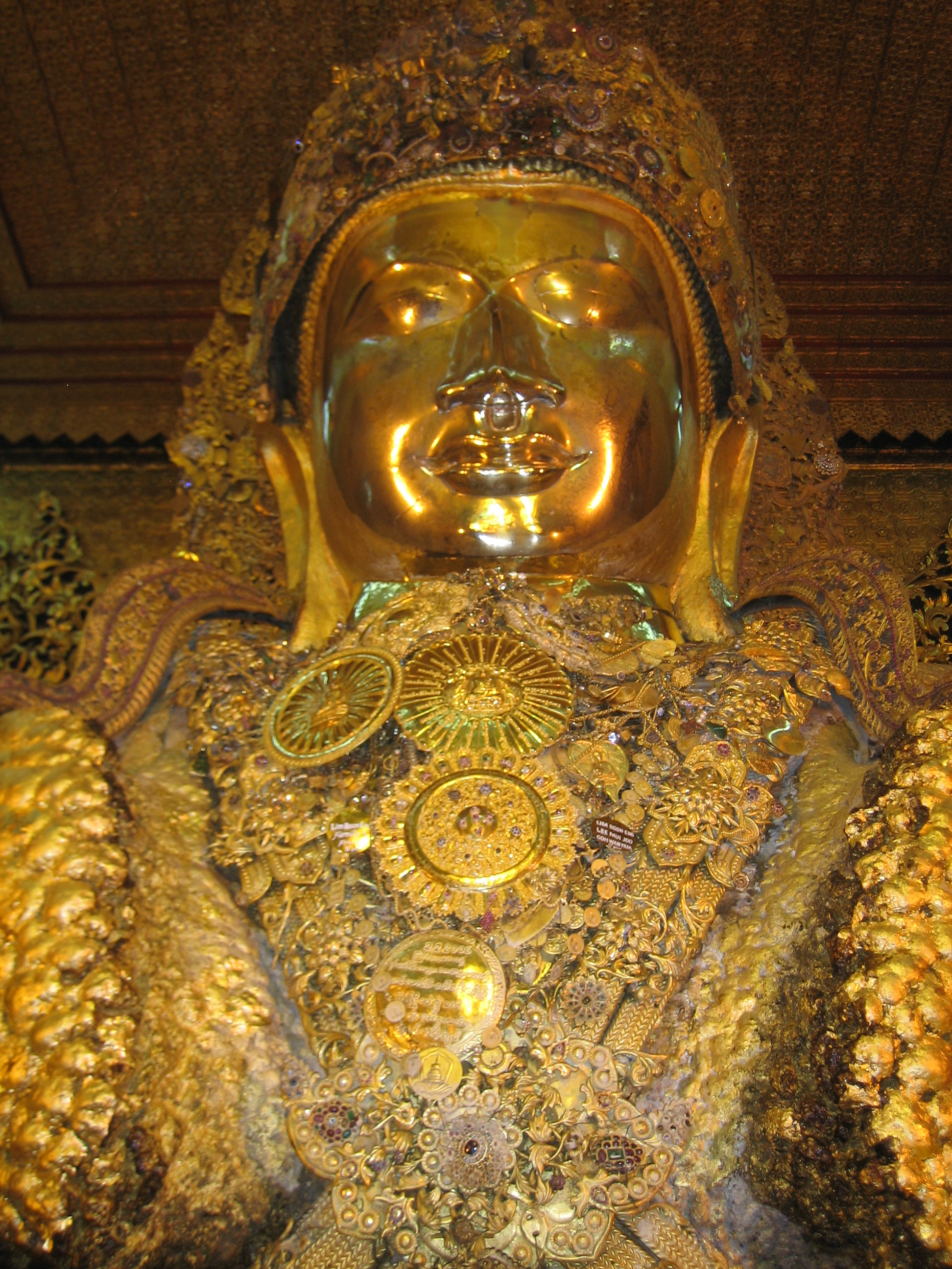 Maha Muni Buddha in Mandalay